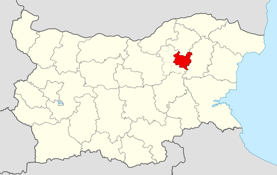 Location map of Targovishte Municipality within Targovishte Province, Bulgaria. Equirectangular projection, N/S stretching 130 %. Geographic limits of the map: N: 44.4° N S: 41.1° N W: 22.1° E E: 28.9° E